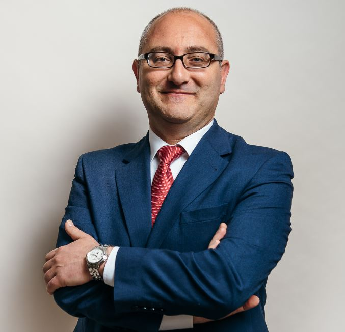 photo maltese politician Roderick Gales